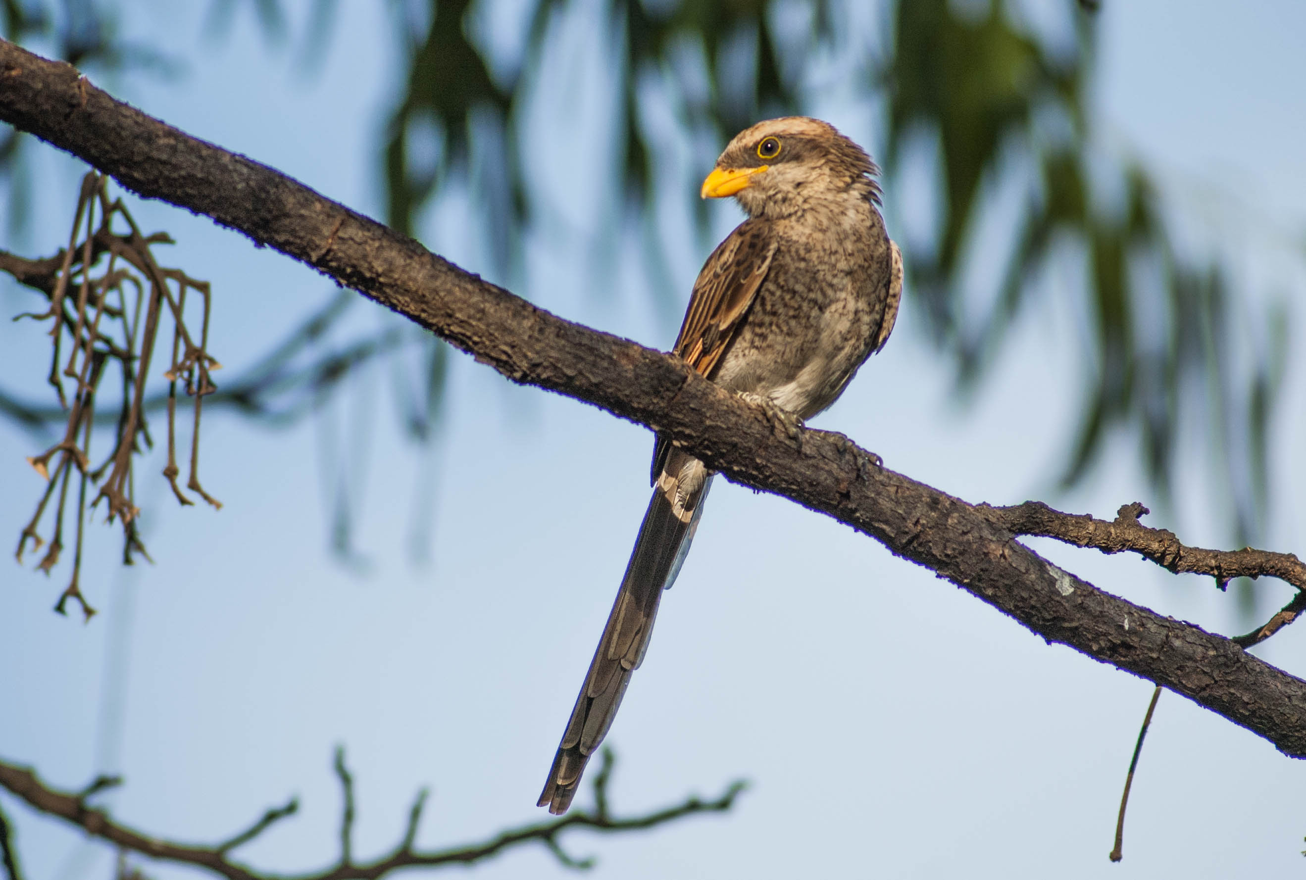 Yellow-billed Shrike ...Gambia